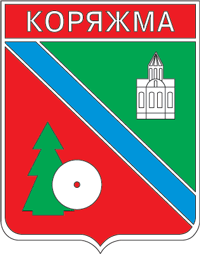 Koryzhma (Arkhangelsk oblast), coat of arms (1988)